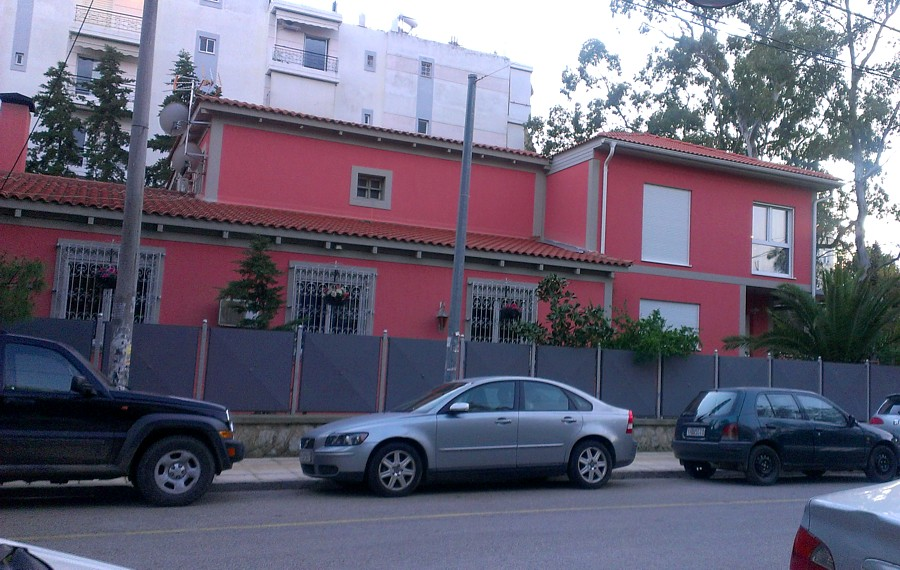 vrilissia